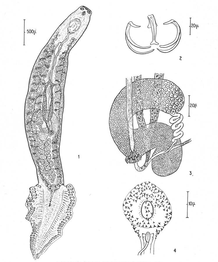 Microcotyle donavini (Microcotylidae) Body and various parts From: (1963). "Microcotyle donavini Van Beneden et Hesse 1863 espèce type du genre Microcotyle Van Beneden et Hesse 1863". Annales de Parasitologie Humaine et Comparée 38 (6): 875–886. ISSN 0003-4150. Template:Open access